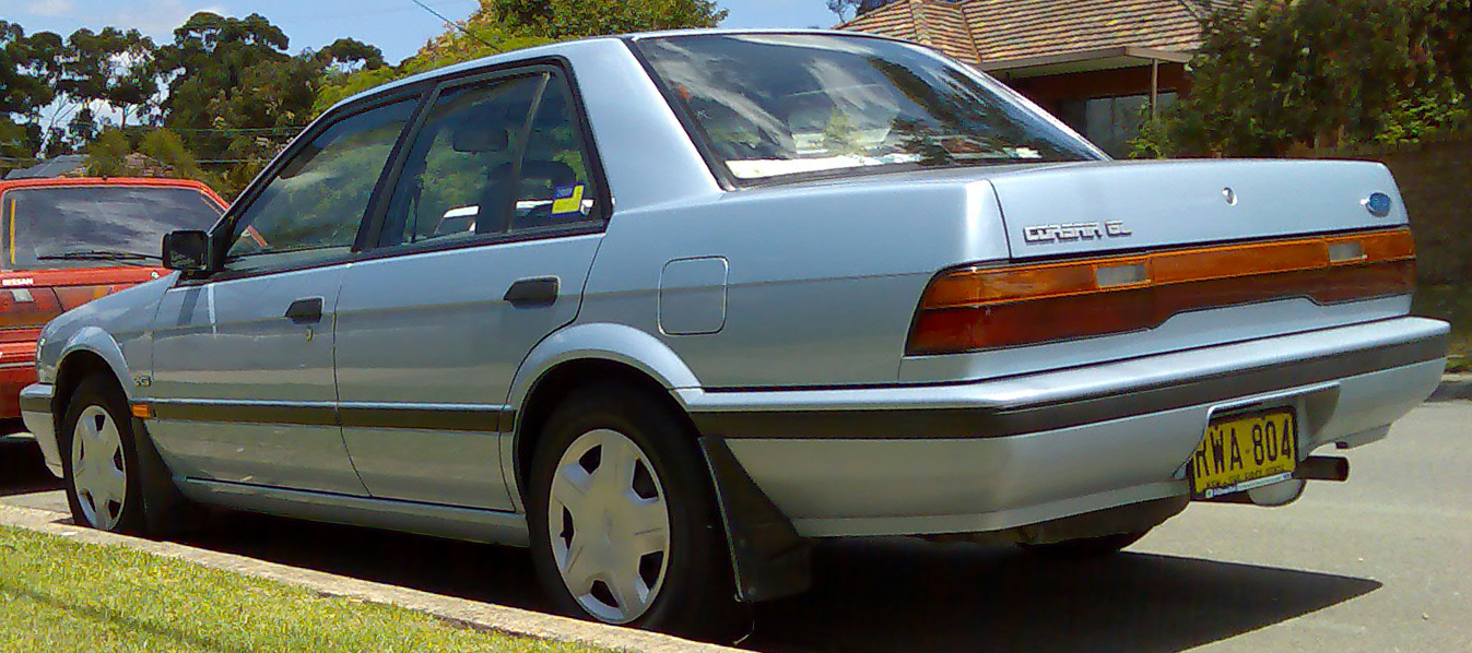 1989–1992 Ford Corsair (UA) GL sedan (with 1999–2001 Ford Laser (KN)/2001–2003 Ford Laser (KQ) hubcaps). Photographed in Gymea Bay, New South Wales, Australia.